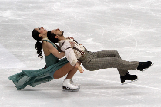 Federica Faiella and Massimo Scali at the the 2010 World Championships.